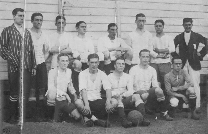 The 1917 Racing Club team, champion of the Asociacion Argentina de Football.